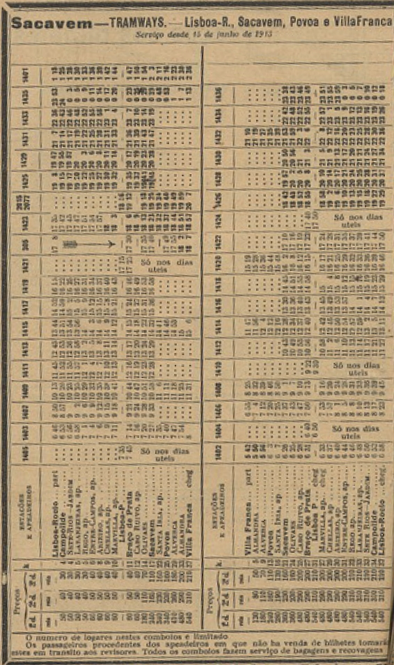 Timetable of the tramways (former designation of the suburban trains) from Lisbon - Rossio to Sacavém, in Portugal, on the 15th June 1913. This image was published on the Guia Official dos Caminhos de Ferro de Portugal No. 168, of October 1913, and scanned by the Biblioteca Nacional de Portugal.